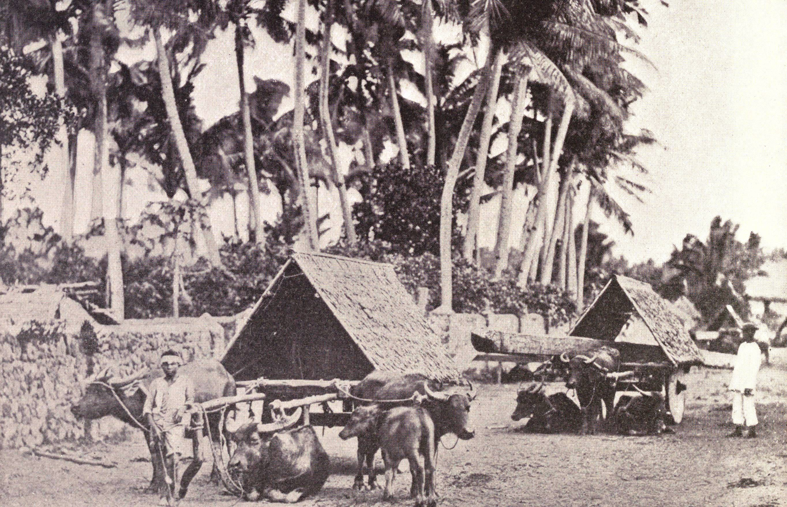 Original caption (cropped out): The strange wagons of Albay Description (cropped out): The eighty-odd different tribes who inhabit the Philippines have varying dialects, manners, and customs. The peculiar house-roofed wagons, shown in the above illustration, are found in only one locality.